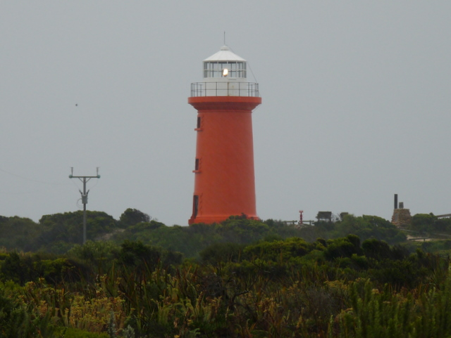 The lighthouse at Cape Banks, just to the north of Carpenter Rocks, South Australia